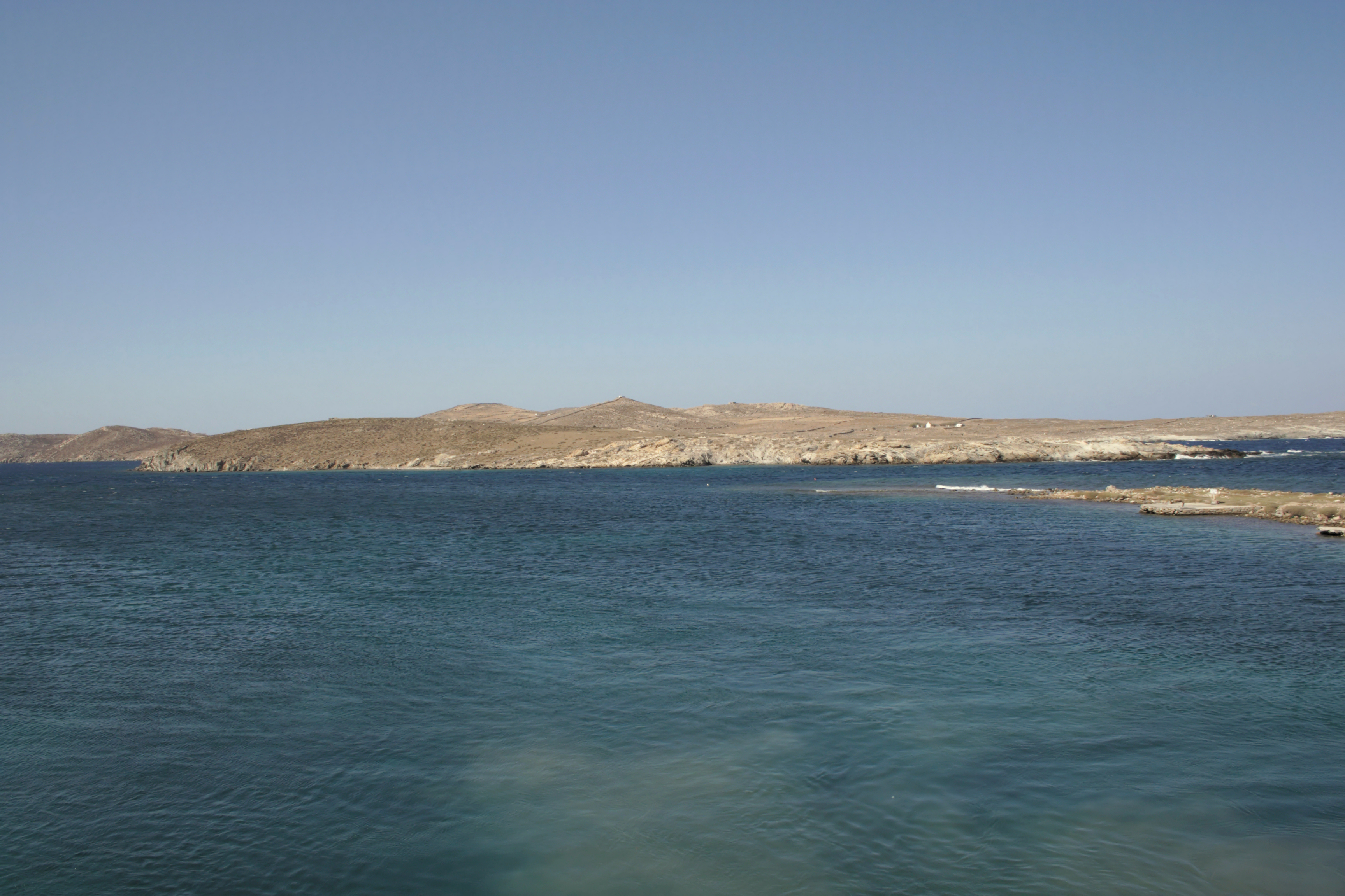 Island Rinia (Rheneia), full of ancient tombs. View from the port at Delos.